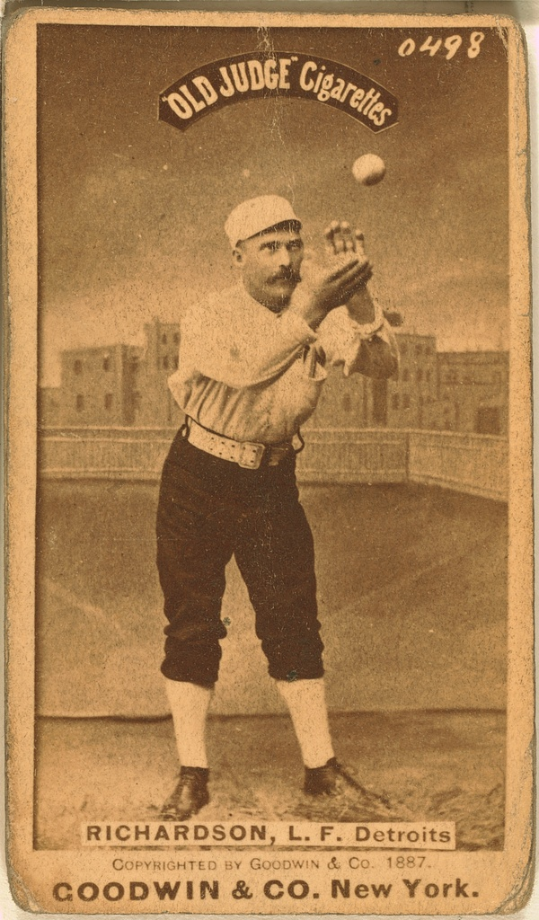 Old Judge baseball card for Hardy Richardson